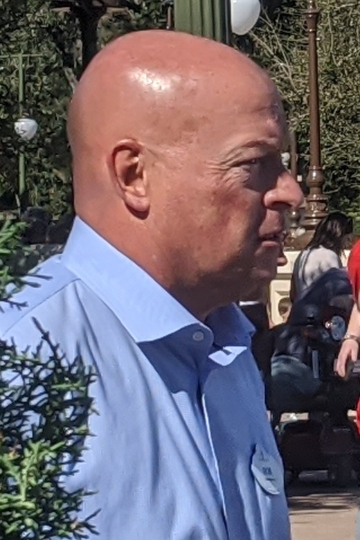 Josh D'Amaro, President of the Walt Disney World Resort and Bob Chapek, Chairman of Disney Parks, Experiences and Products